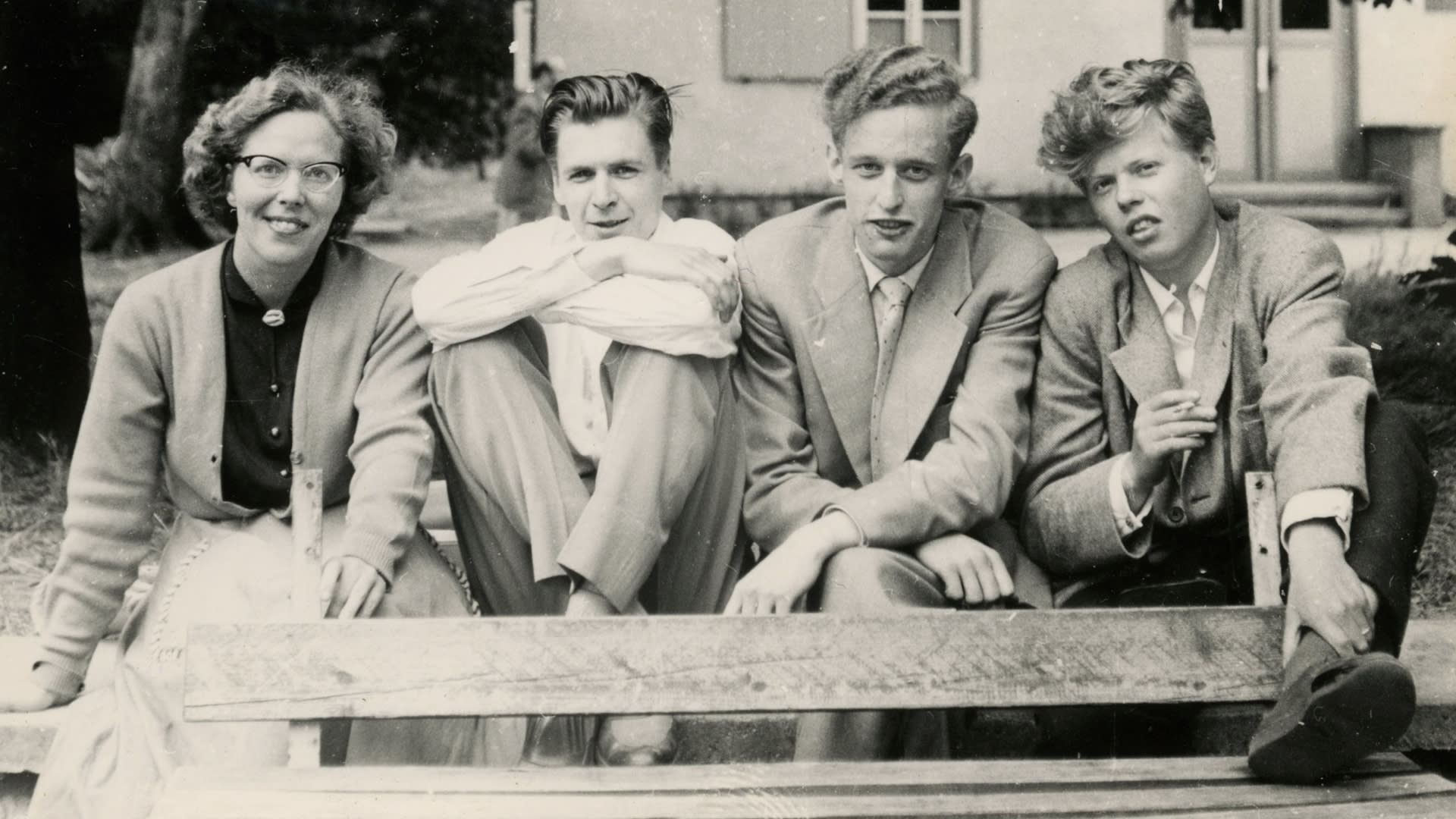 Photograph of Finnish musicians and musicologists, taken in Summer 1957. From left: Meri Louhos (1927–), Martti Vuorenjuuri (1932–), Seppo Heikinheimo (1938–1997) and Ilkka Kuusisto (1933–).